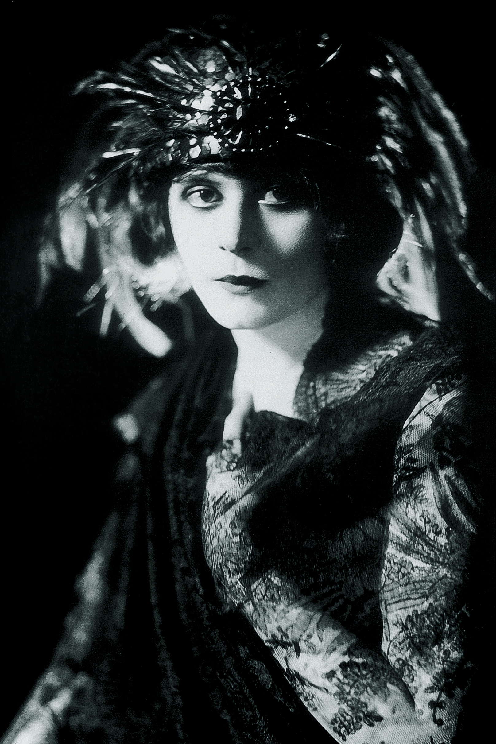 American actress Theda Bara in the 1920 play, The Blue Flame.